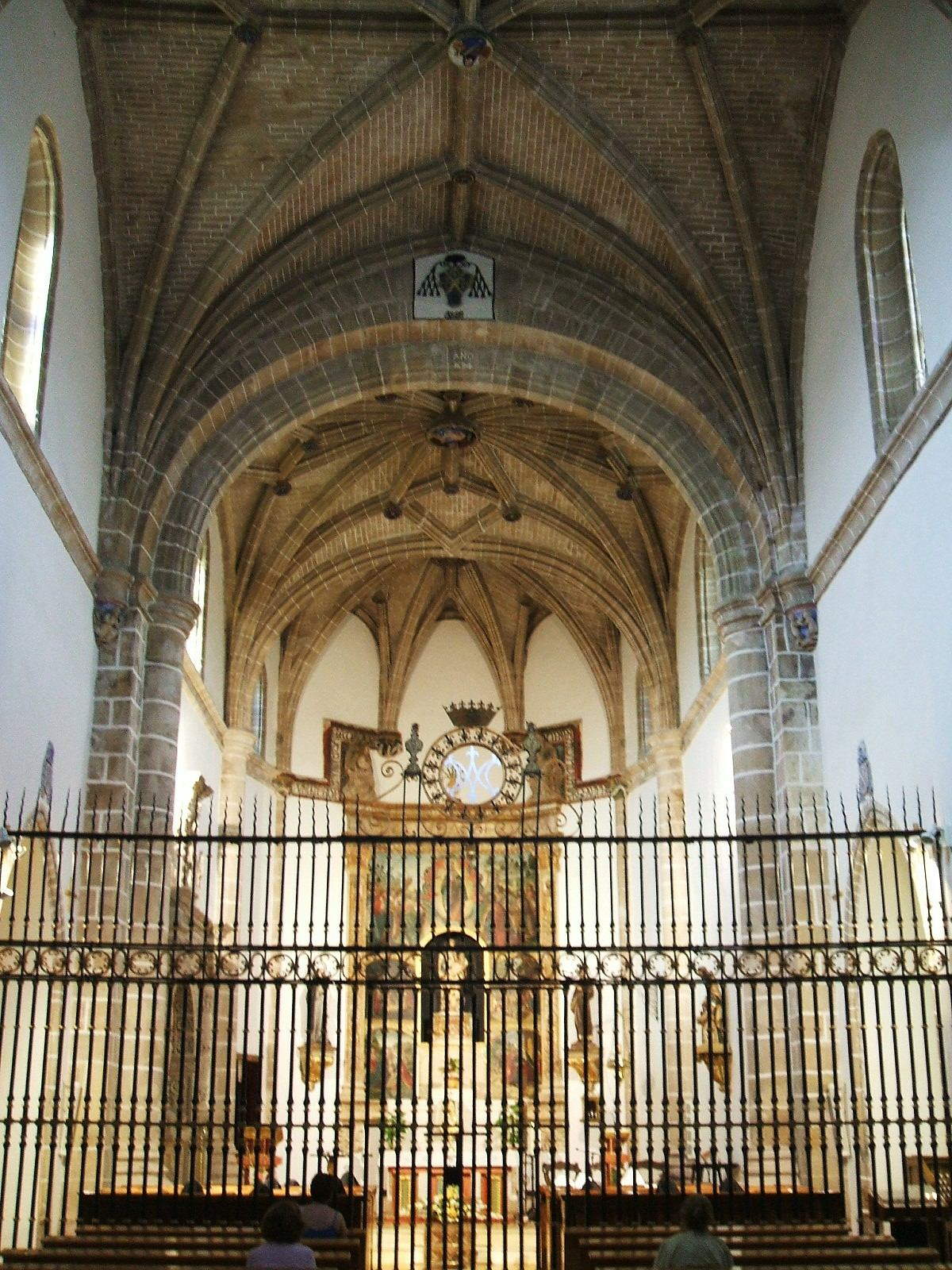 Iglesia del Monasterio de Nuestra Señora de los Huertos (MM Clarisas), Sigüenza, Guadalajara, Castilla-La Mancha, España